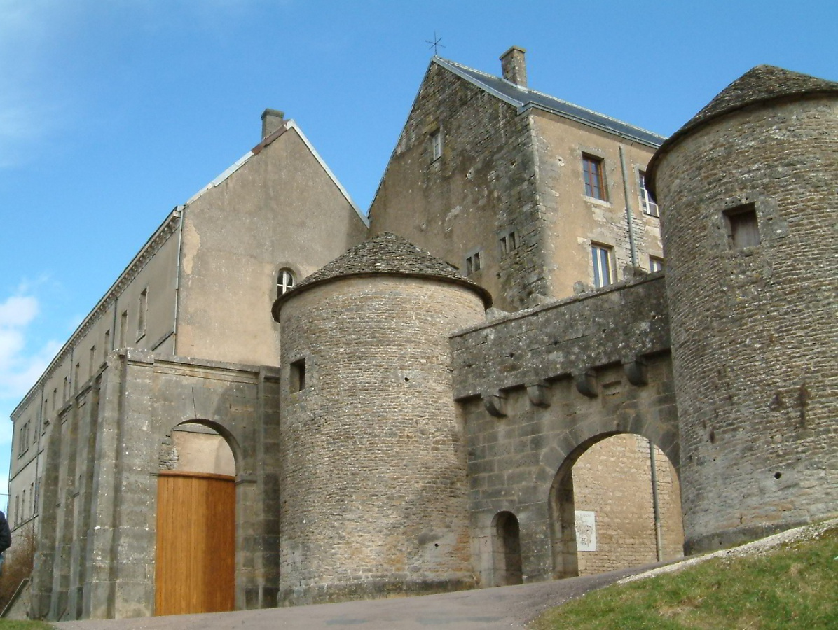 Flavigny-sur-Ozerain, Bourgogne, FRANCE